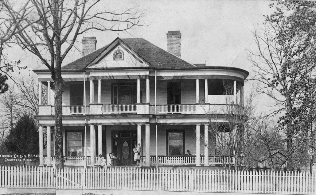 Crawford Plantation, Lowndes County, Mississippi, home of George Willilam Hairston (1857–1941), part of the expanding Hairston empire of homes and plantations scattered across the South, starting in Henry County, Virginia. Pictured on the porch of Crawford are owner George W. Hairston, wife Ela Tharpe Hairston and nurses holding children Brown and Nicholas Hairston.